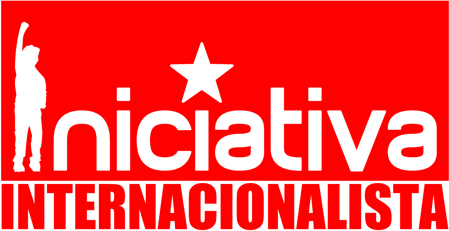 Logo of the Spanish political party Iniciativa Internacionalista.